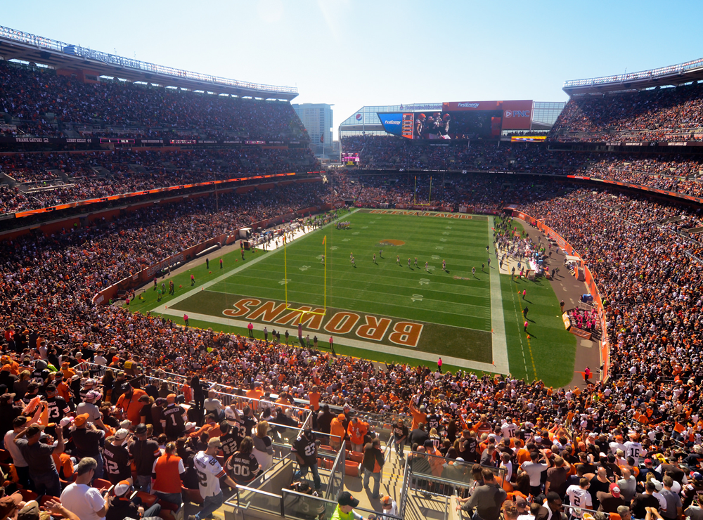 Cleveland Browns vs. Pittsburgh Steelers by Flickr user Erik Drost